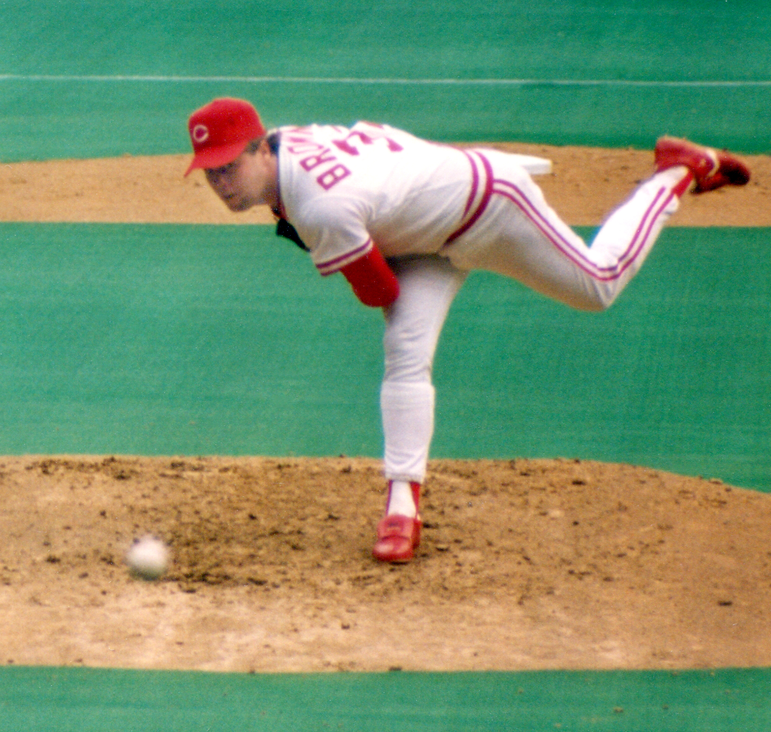 Tom Browning pitching for the Cincinnati Reds in Riverfront Stadium against the San Francisco Giants on September 12, 1991